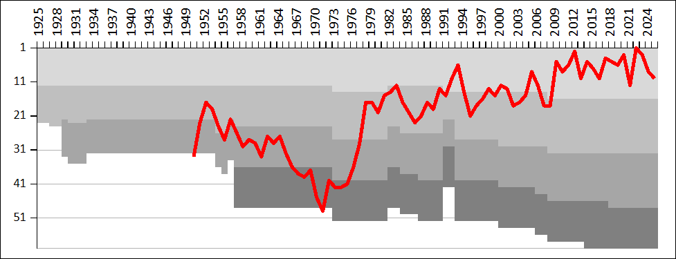 A chart showing the progress of BK Häcken through the Swedish football league system. Horizontal black lines represent league divisions.